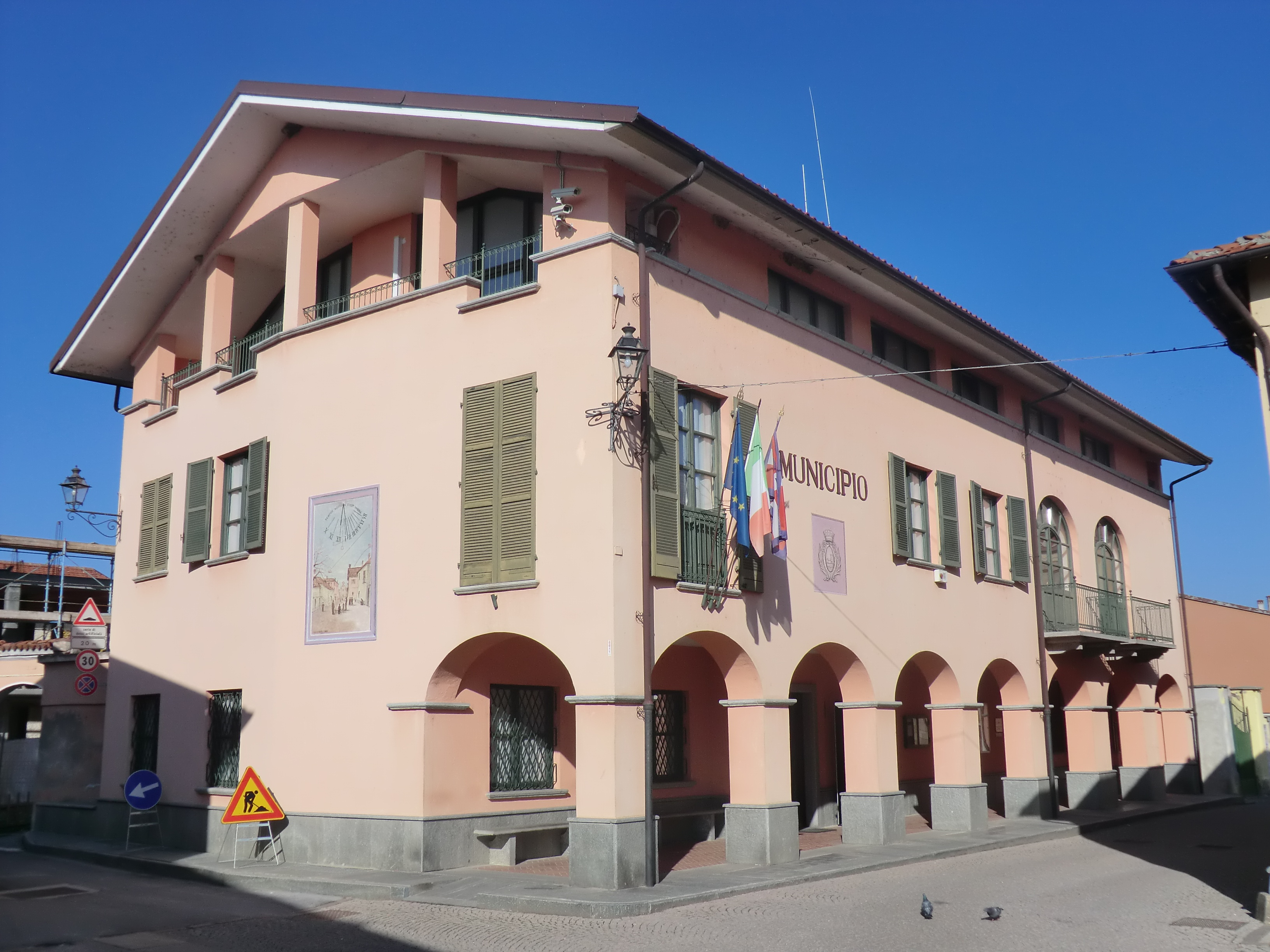 Castelletto Stura (Cuneo - Italy): city hall